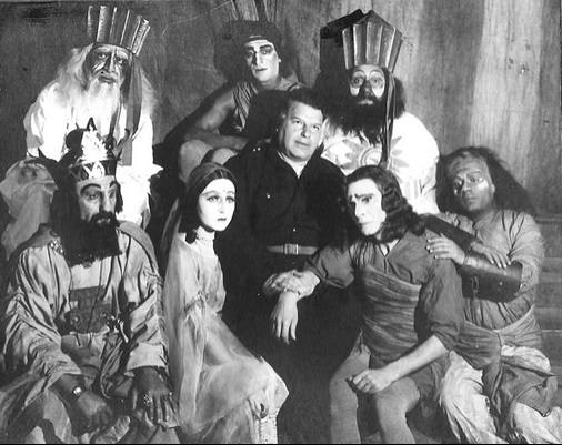 Sharifzade in Jabbarly's Bride of Fire